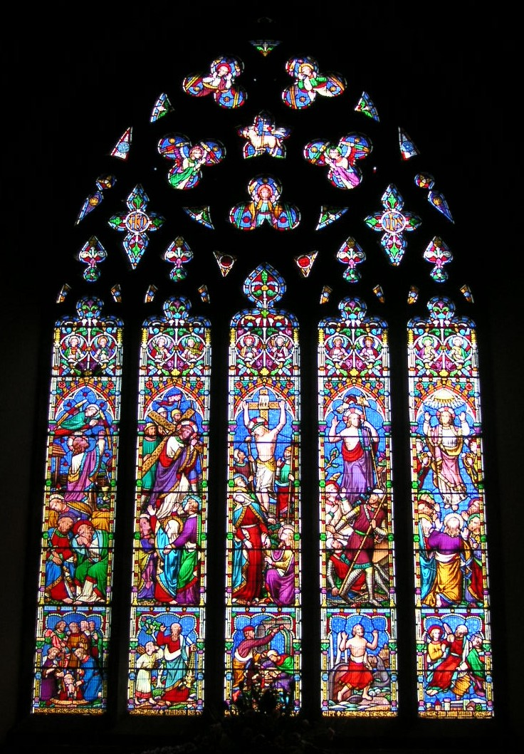 Chilham, Kent UK, Chancel window, Passion of Christ with scenes from Old Testament, by William Wailes.